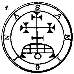 The seal of Samigina